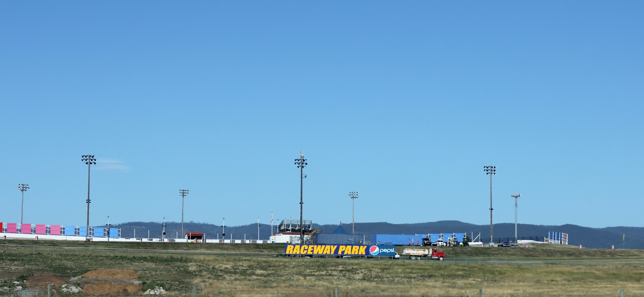 The exterior of Montana Raceway Park near Kalispell, Montana. along U.S. Route 93.